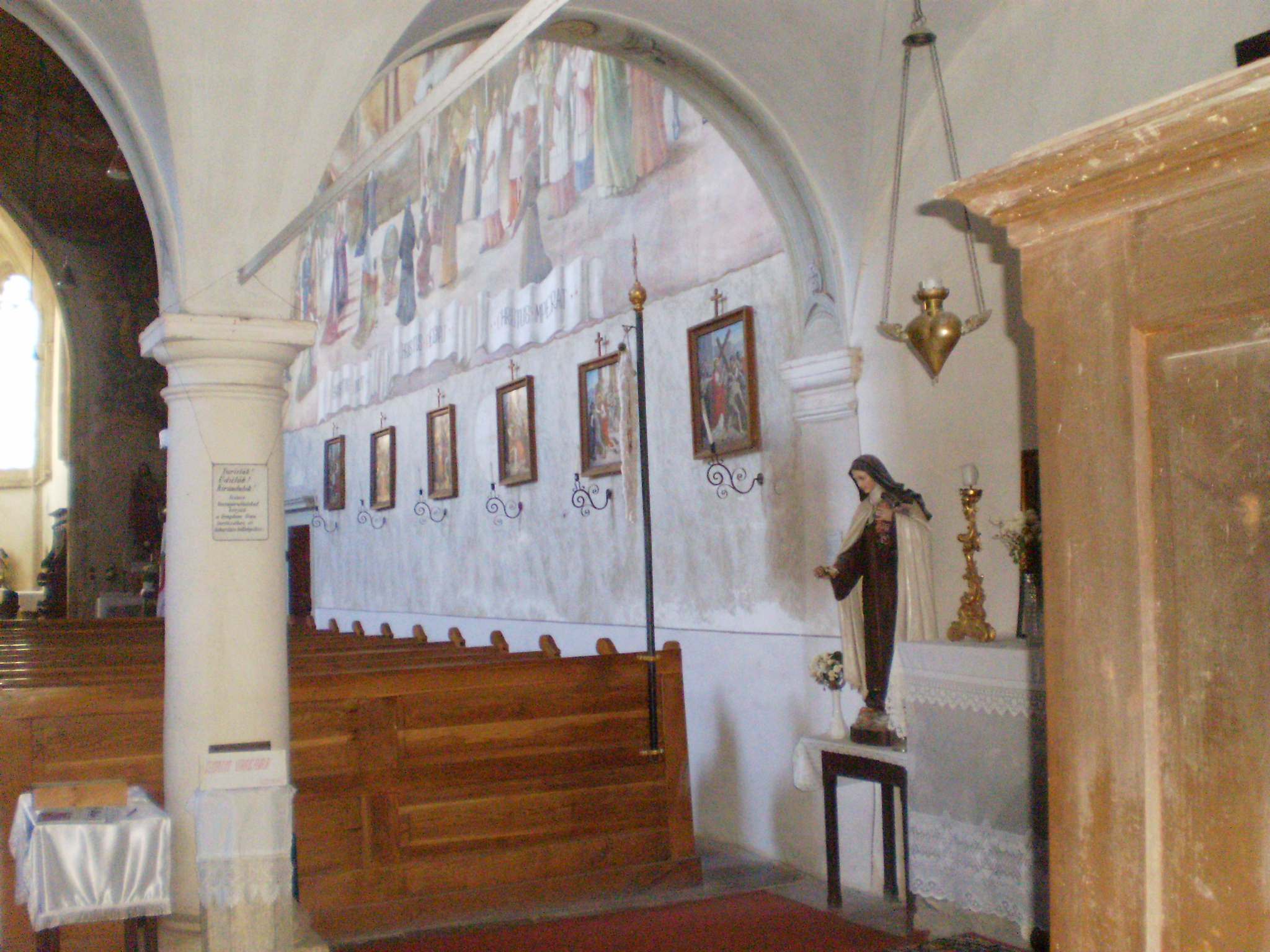 Interior of the Carmelite church, Sopron, Hungary